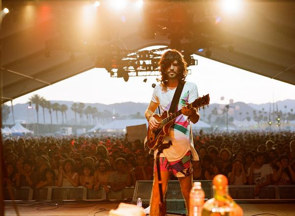 Devendra Banhart performing at the 2009 Coachella Festival in Indio CA